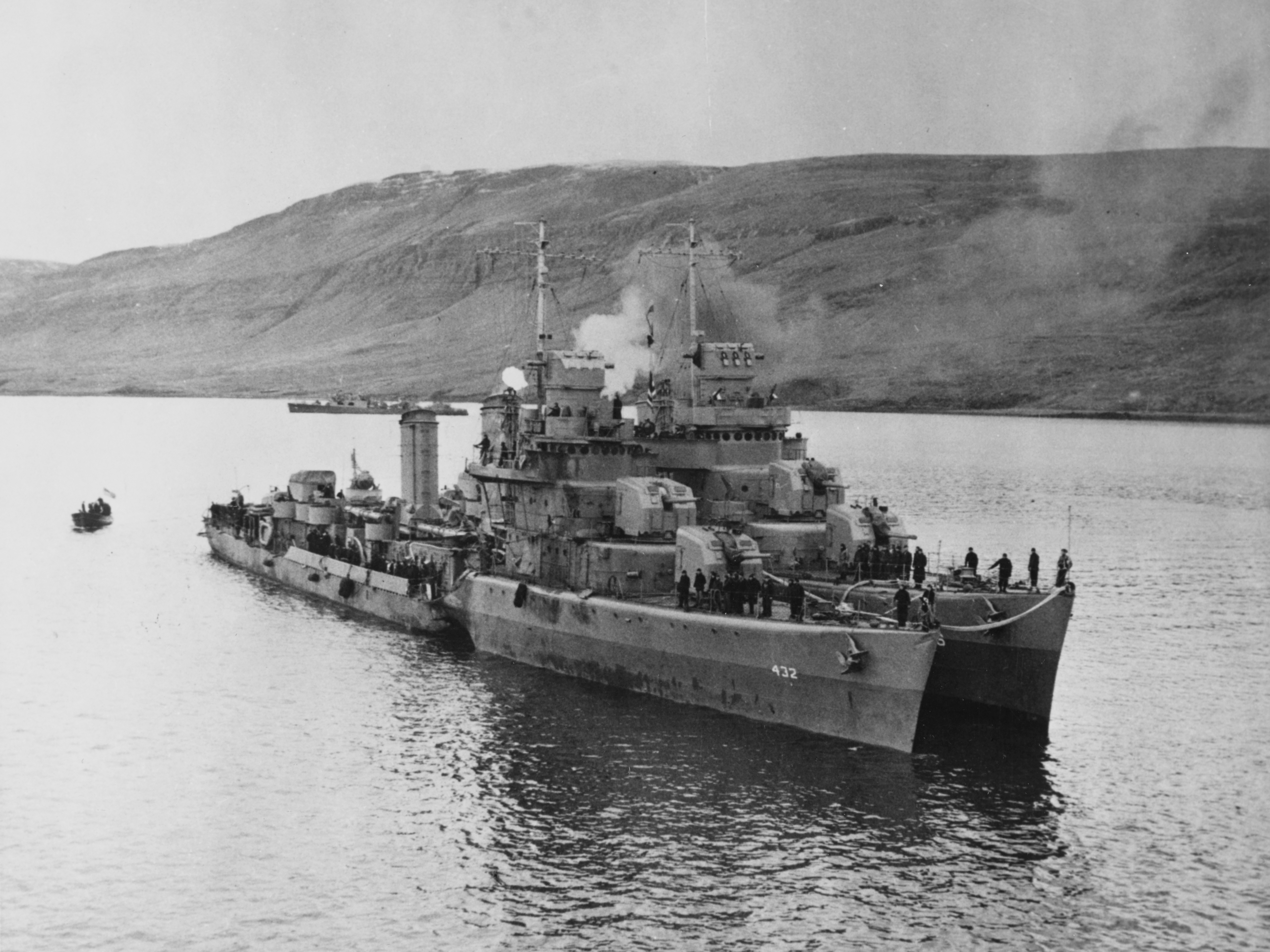 The U.S. Navy destroyer USS Kearny (DD-432) in port at Reykjavik, Iceland, on 19 October 1941, two days after she had been torpedoed by the German submarine U-568. USS Monssen (DD-436) is alongside. Note the torpedo hole in Kearny's midships starboard side.